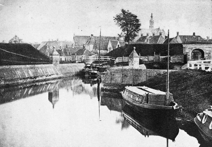 Groninger snik (type of rivership) for passenger transport in the Groningen city (Netherlands), 1877